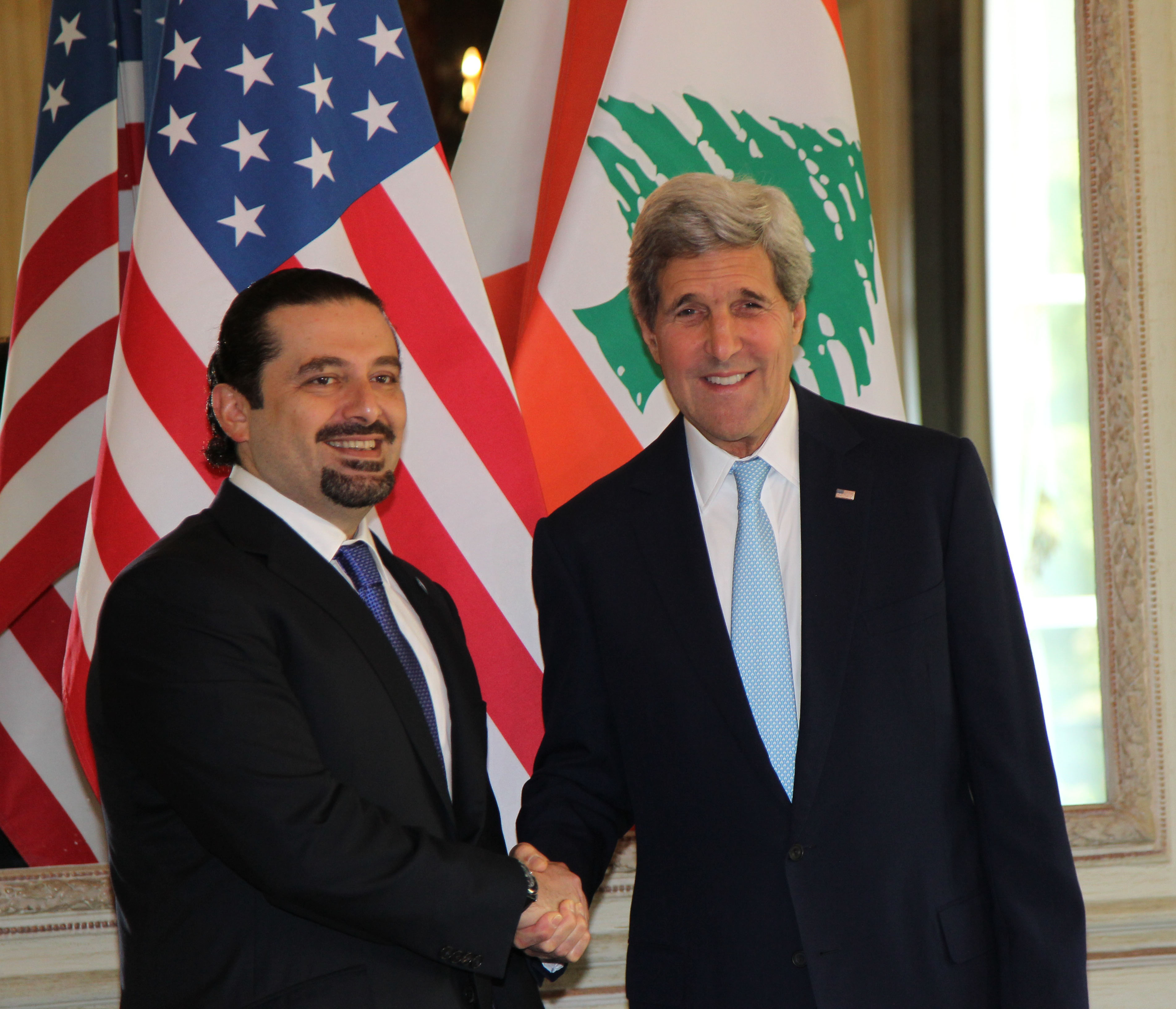 U.S. Secretary of State John Kerry shakes hands with former Lebanese Prime Minister Saad Hariri before their meeting at the U.S. Ambassador's Residence in Paris, France, on June 26, 2014. [State Department photo/ Public Domain]